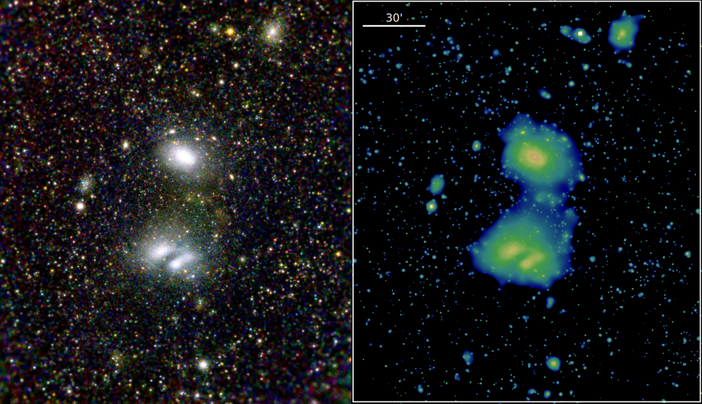 These two eROSITA images show the two interacting galaxy clusters A3391, to the top of the image, and the double-peaked cluster A3395, to the bottom, highlighting eROSITA’s superb view of the distant Universe. They were observed in a series of exposures with all seven eROSITA telescope modules taken from 17 to 18 October 2019. The individual images were subjected to different analysis techniques, and then coloured in different schemes to highlight the different structures. In the left-hand image, the red, green and blue colours refer to the three different energy bands of eROSITA. One clearly sees the two clusters as nebulous structures, which shine brightly in X-rays due to the presence of extremely hot gas (tens of millions of degrees) in the space between galaxies. The image on the right highlights the “bridge” or “filament” between the two clusters, confirming the suspicion that these two huge structures do interact dynamically. The eROSITA observations also show hundreds of point-like sources, signposting either distant supermassive black holes or hot stars in the Milky Way. by T. Reiprich (Univ. Bonn), M. Ramos-Ceja (MPE), F. Pacaud (Univ. Bonn), D. Eckert (Univ. Geneva), J. Sanders (MPE), N. Ota (Univ. Bonn), E. Bulbul (MPE), V. Ghirardini (MPE), MPE/IKI